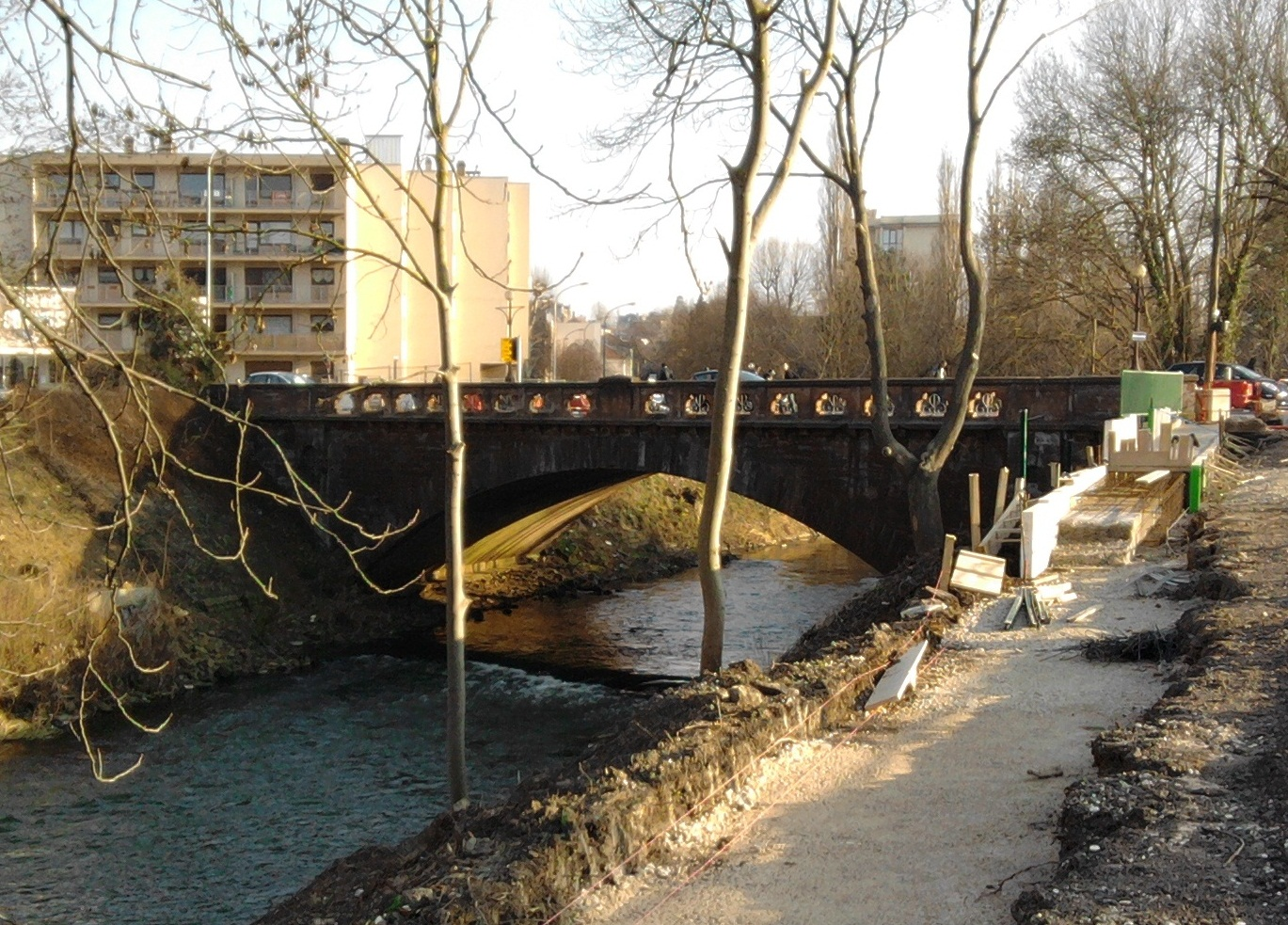 Seille Bridge in Metz, Moselle (France)